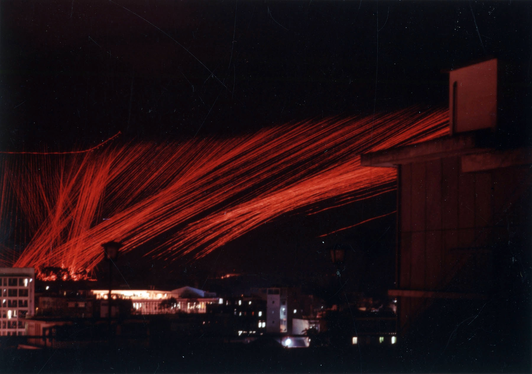 Night attack of a U.S. Air Force Douglas AC-47D Spooky gunship over Saigon in 1968. This time lapse photo shows the tracer round trajectories.